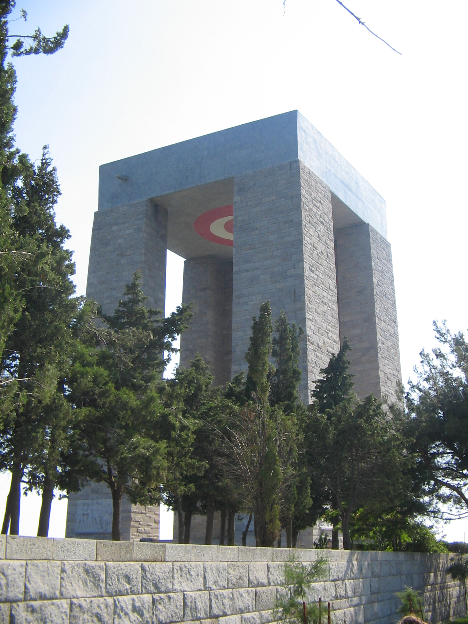 a turkish war monument of the battle of gallipolli 1915 in canakkale,turkey